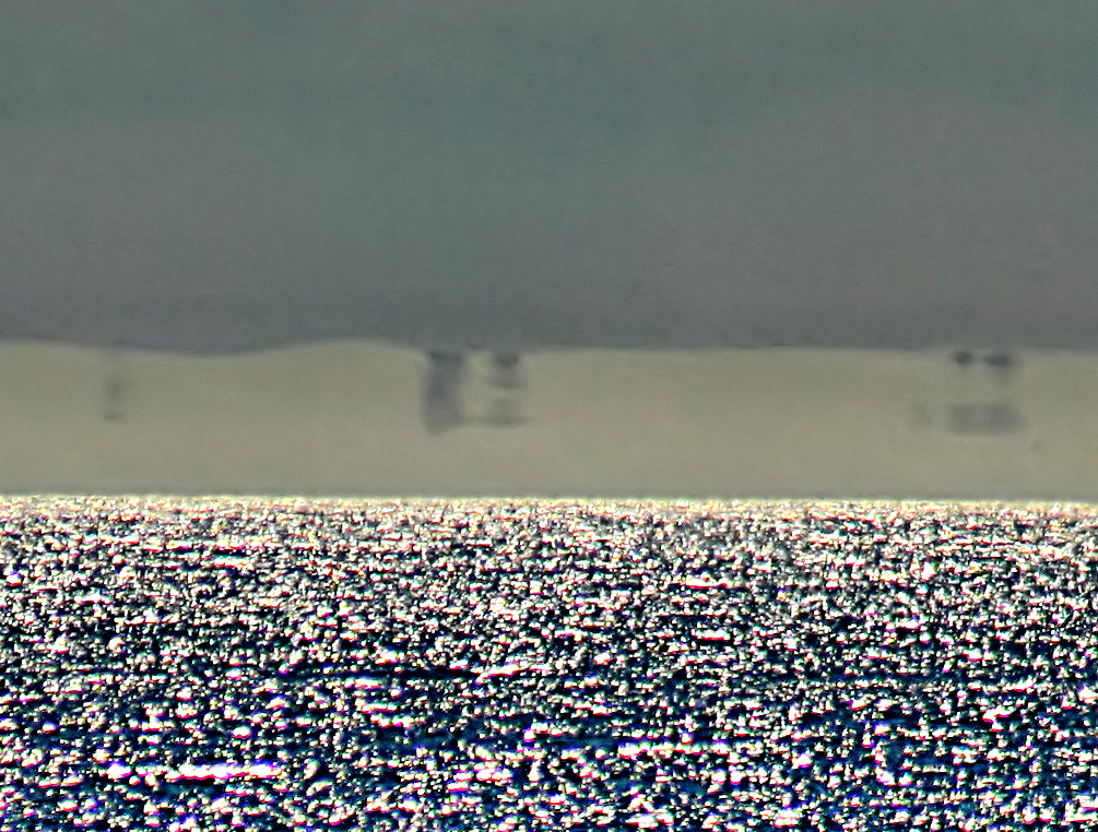 Fata Morgana of boats or islands. The image also shows a solitary wave on inversion layer.